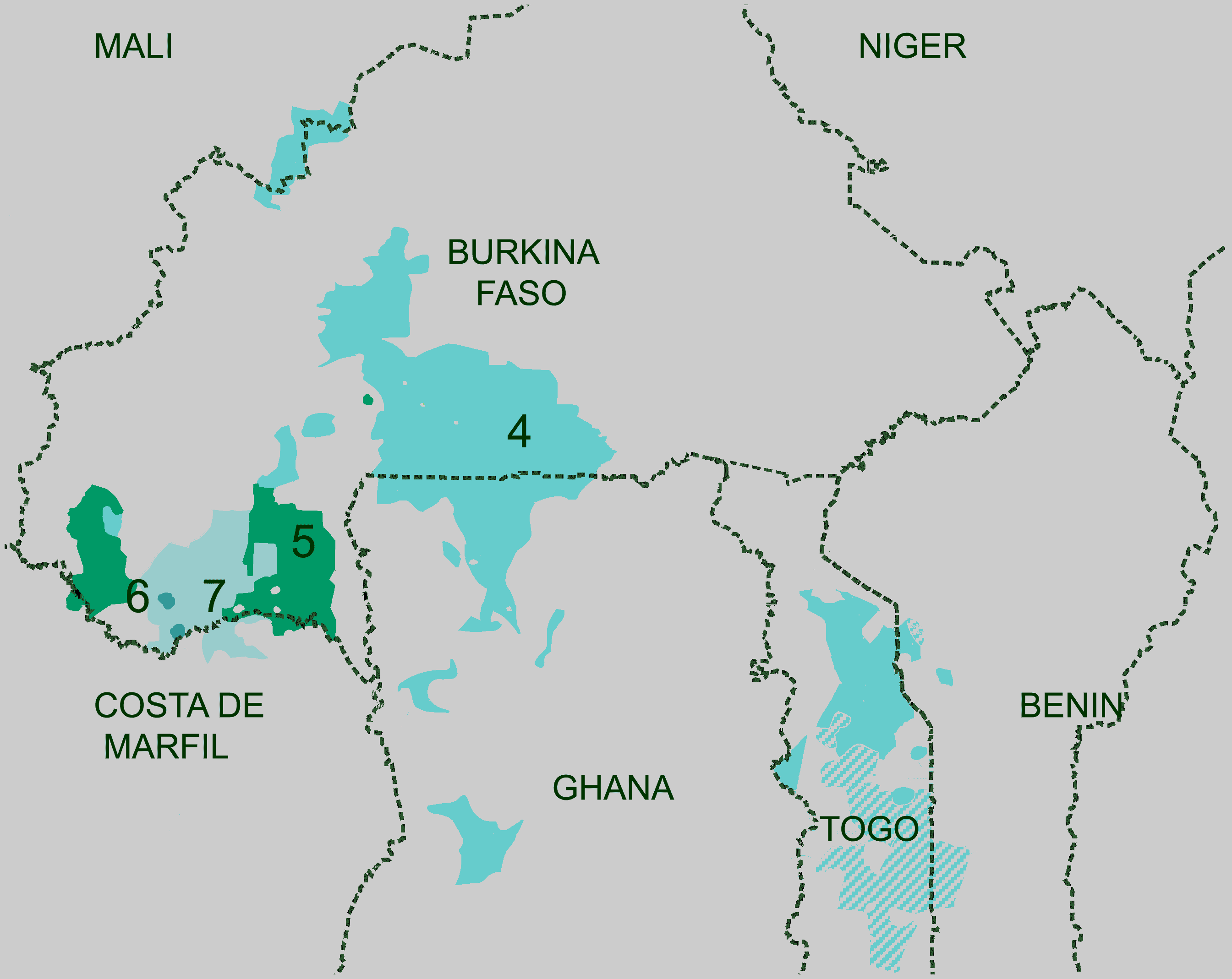 South Central Gur languages 4 Grũsi languages (Gurunsi) 5 Kirma-Lobi languages 6 Dogoso-Khe 7 Doghose-Gan